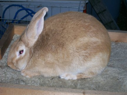 Golden Palomino Buck